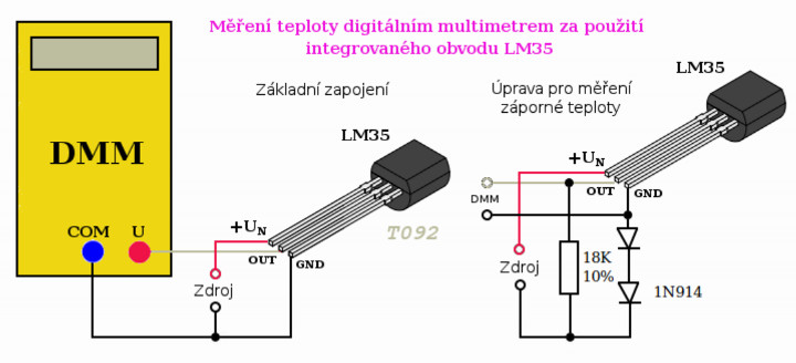 Measuring